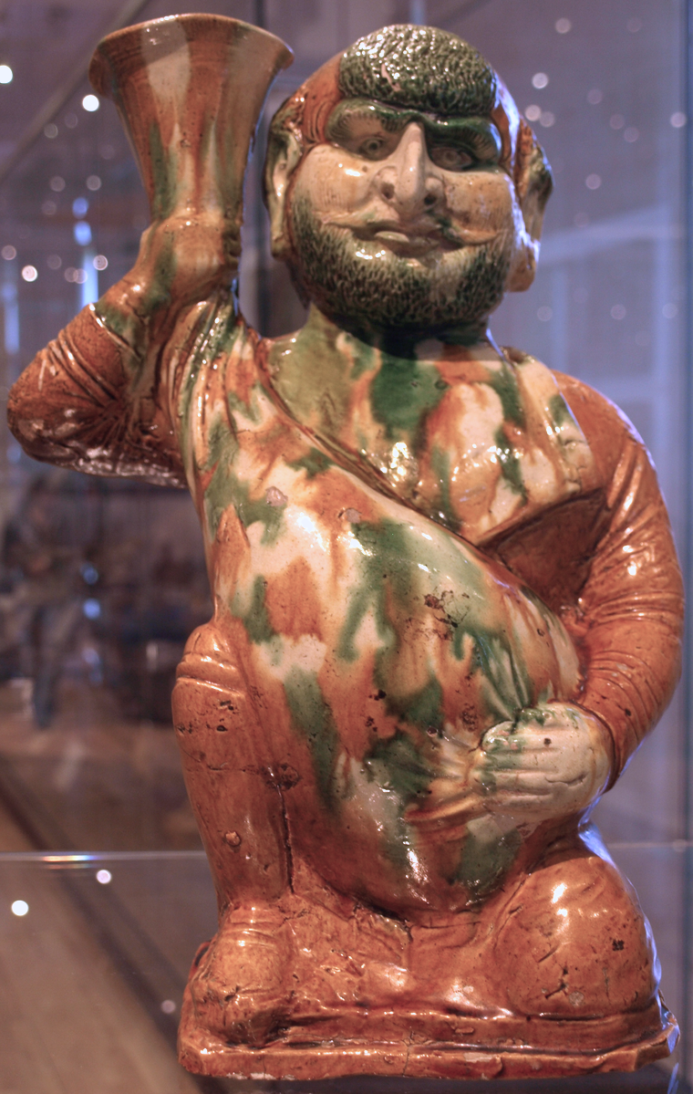 Glazed earthenware figurine depicting a foreigner holding a wineskin. Circa 675-750 AD, Tang dynasty. Cat #918.21.7 The George Crofts Collection. From the Joey and Toby Tanenbaum Gallery of China at the Royal Ontario Museum. It most likely depicts an ethnic Sogdian considering the Sogdian wine merchant theme in Tang-era Chinese ceramic arts.